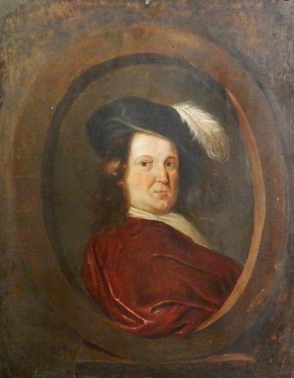 Self portrait, oil on panel, signed and dated, 26x20cm